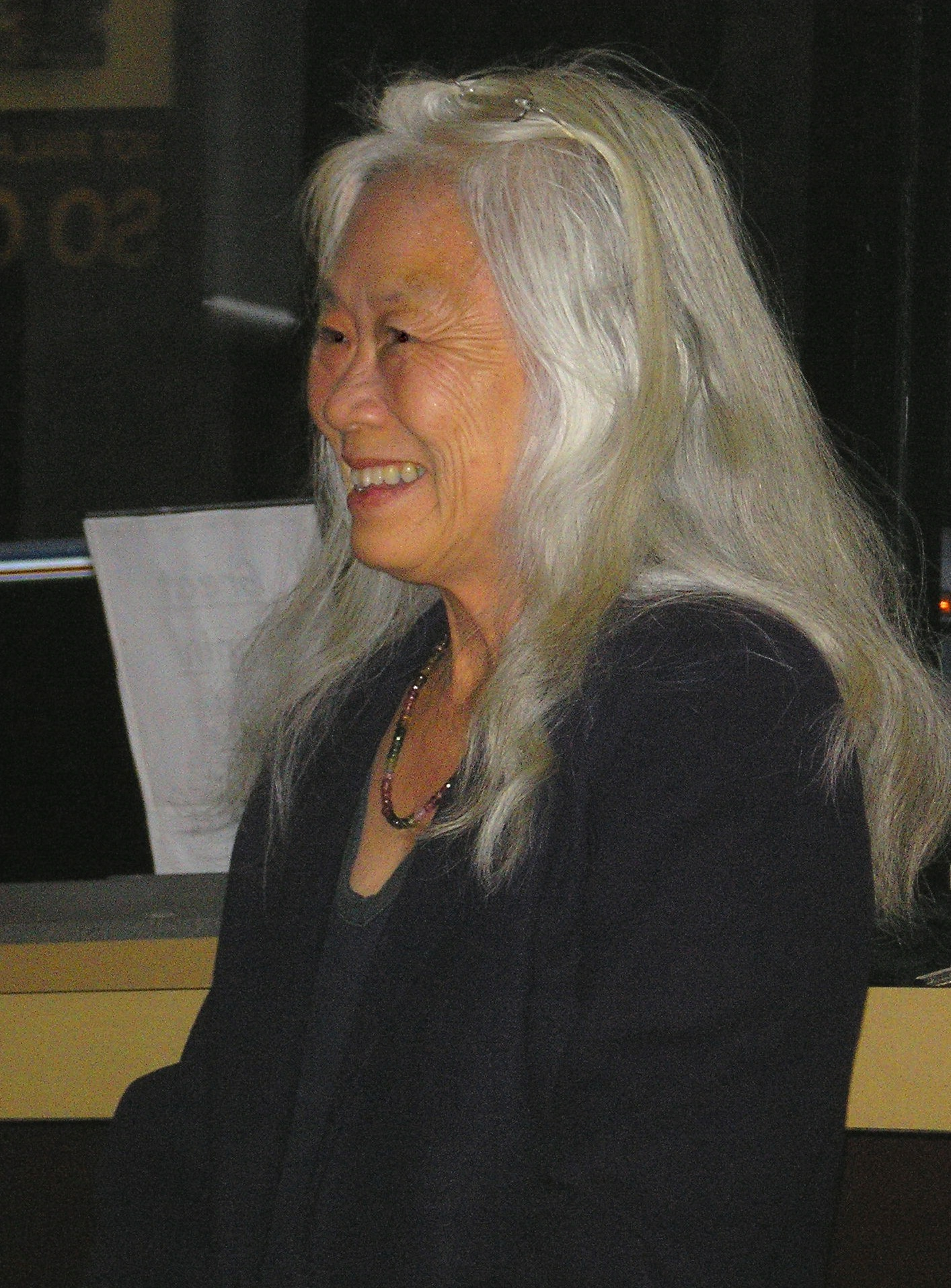 Maxine Hong Kingston in New York City